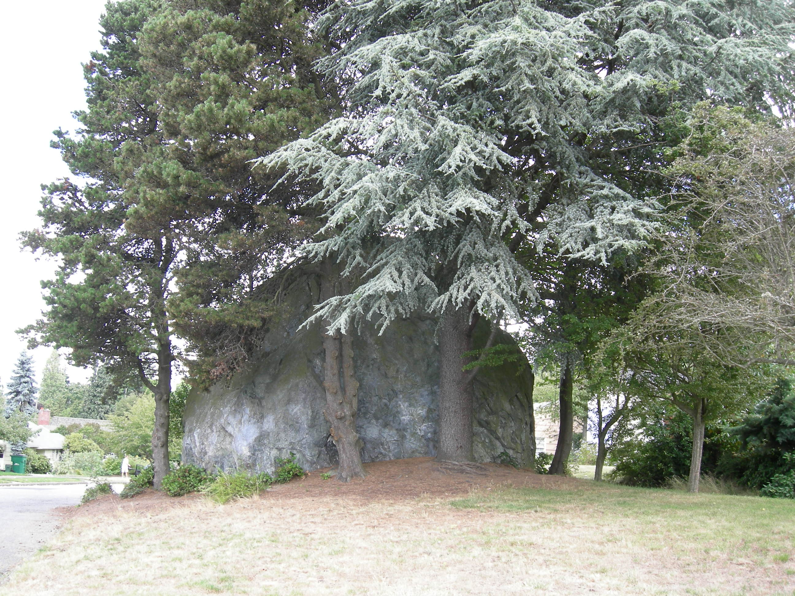 The Wedgwood Rock, also known simply as Big Rock, a glacial erratic and landmark in Seattle, Washington, at the corner of NE 72nd Street and 28th Avenue NE. It is variously claimed by the Wedgwood, Bryant, and View Ridge neighborhoods.